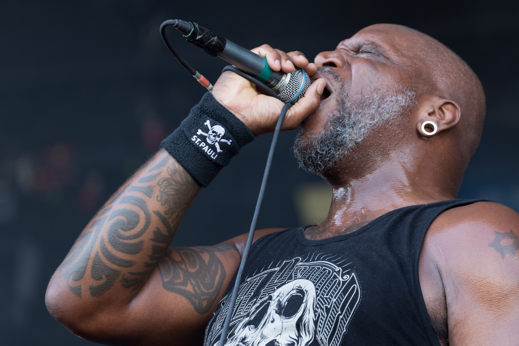 Sepultura performing at the With Full Force Festival, July 2014